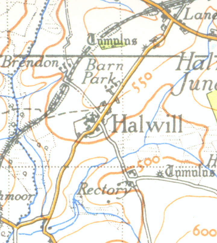 Map of Halwill from 1946. Scale 1 inch to the mile 600DPI Sheet 175